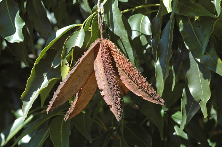 Open fruiting capsule of Flindersia pimenteliana in Mount Annan Botanic Gardens